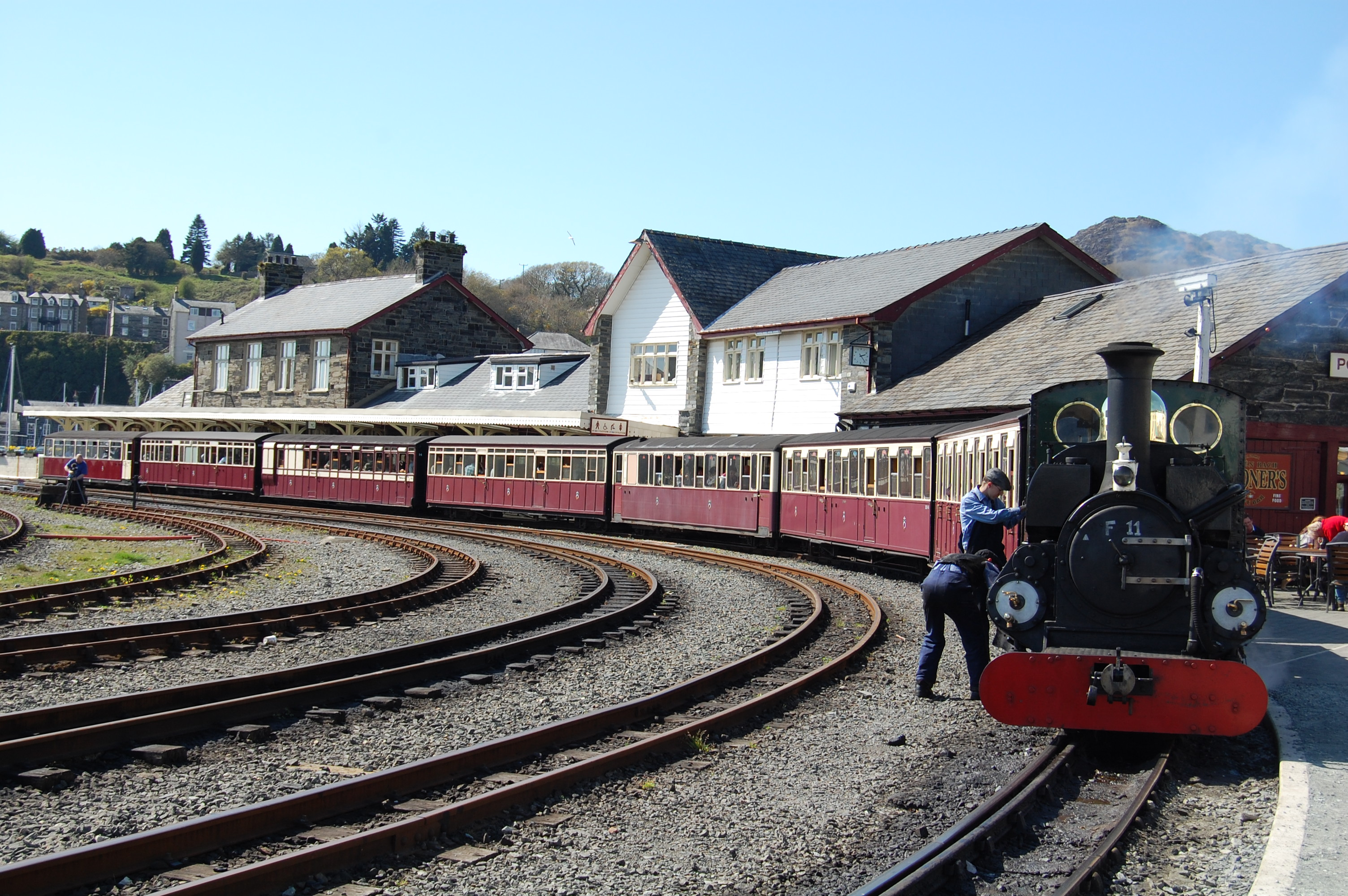 Ffestiniog Railway train headed by Blanche at Porthmadog Harbour Station in Gwynedd